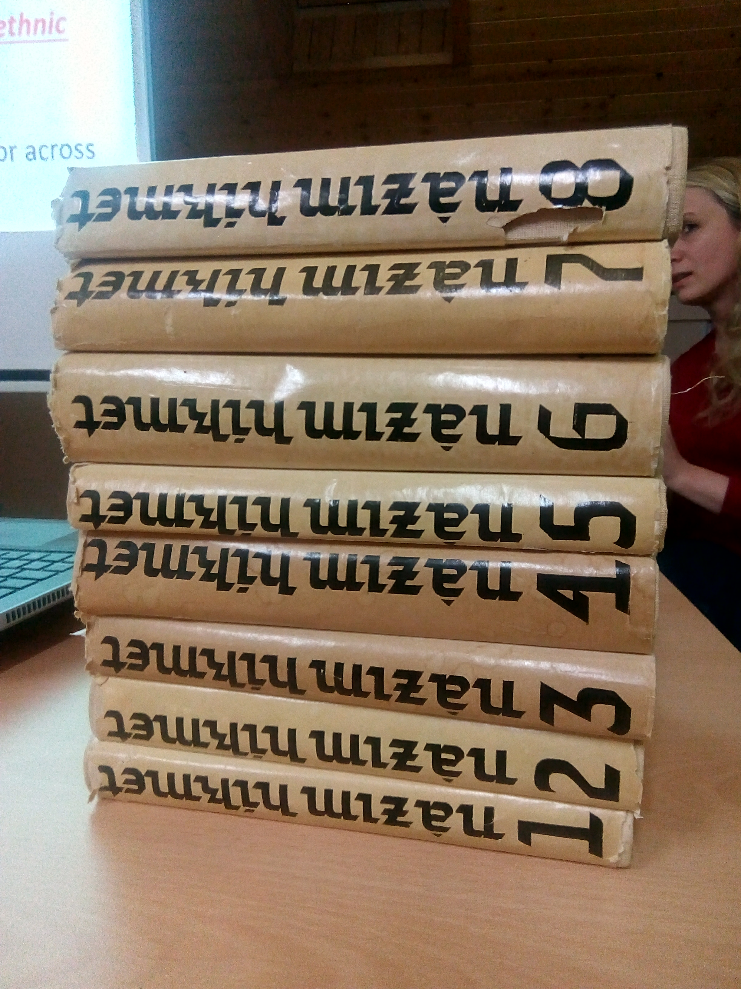 The first-ever collected works of the Turkish poet Nâzım Hikmet, published in communist Bulgaria (Nâzım Hikmet. 1967-1972. Bütün eserleri [Collected Works] (8 vols). Sofya [Sofia, Bulgaria]: Narodna Prosveta). The run of Volume 1 was 17,000 copies, and the run of Volume 8 was 5,000 copies, which reflected the growing suppression of communist Bulgaria's Turkish minority.